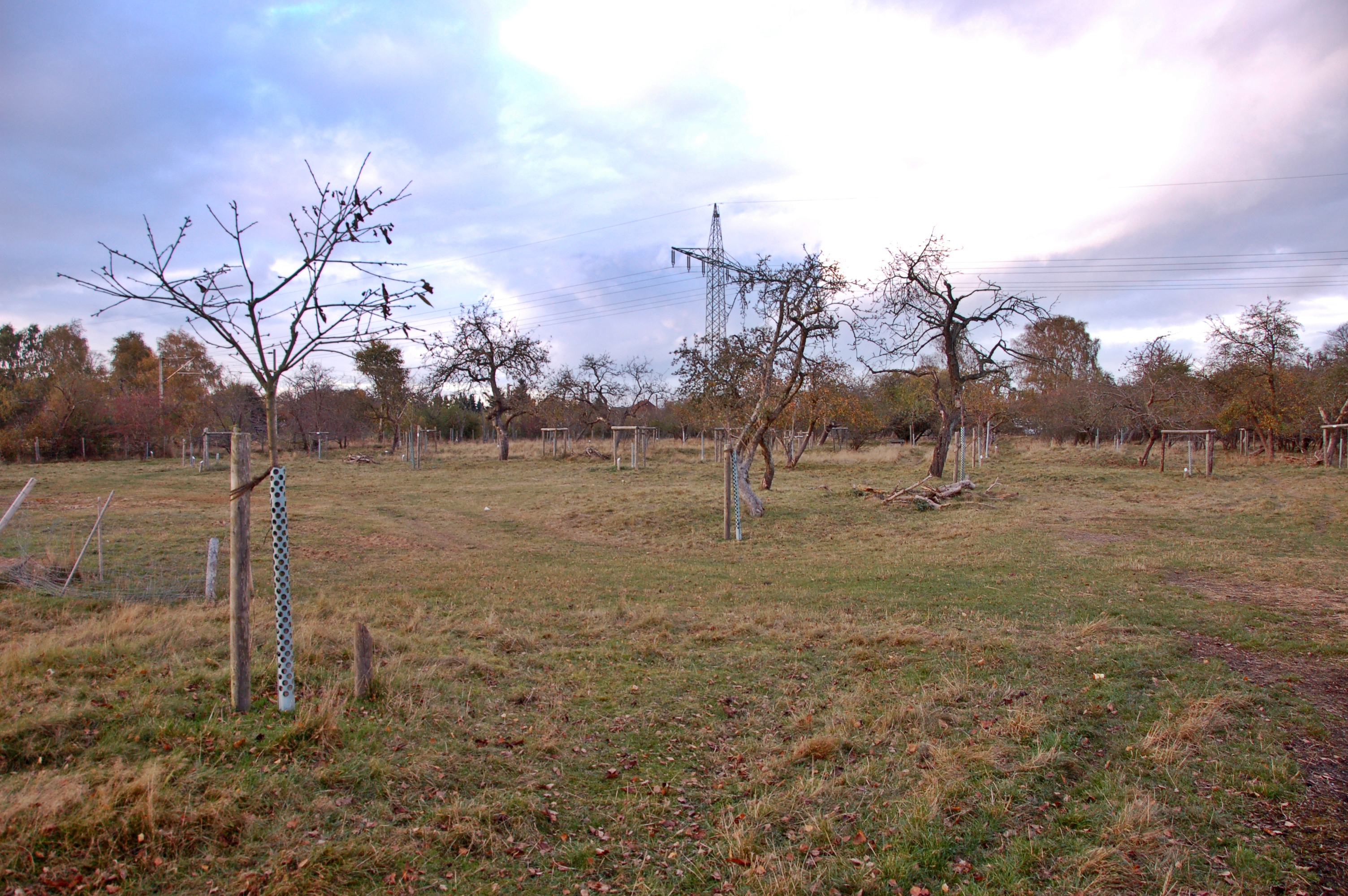 Mixed fruit orchard located at Kieler Straße 515 with about 200 trees